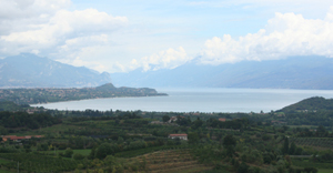 Lake Garda, view from Lonato's castle. Author Sabrina B., 2006